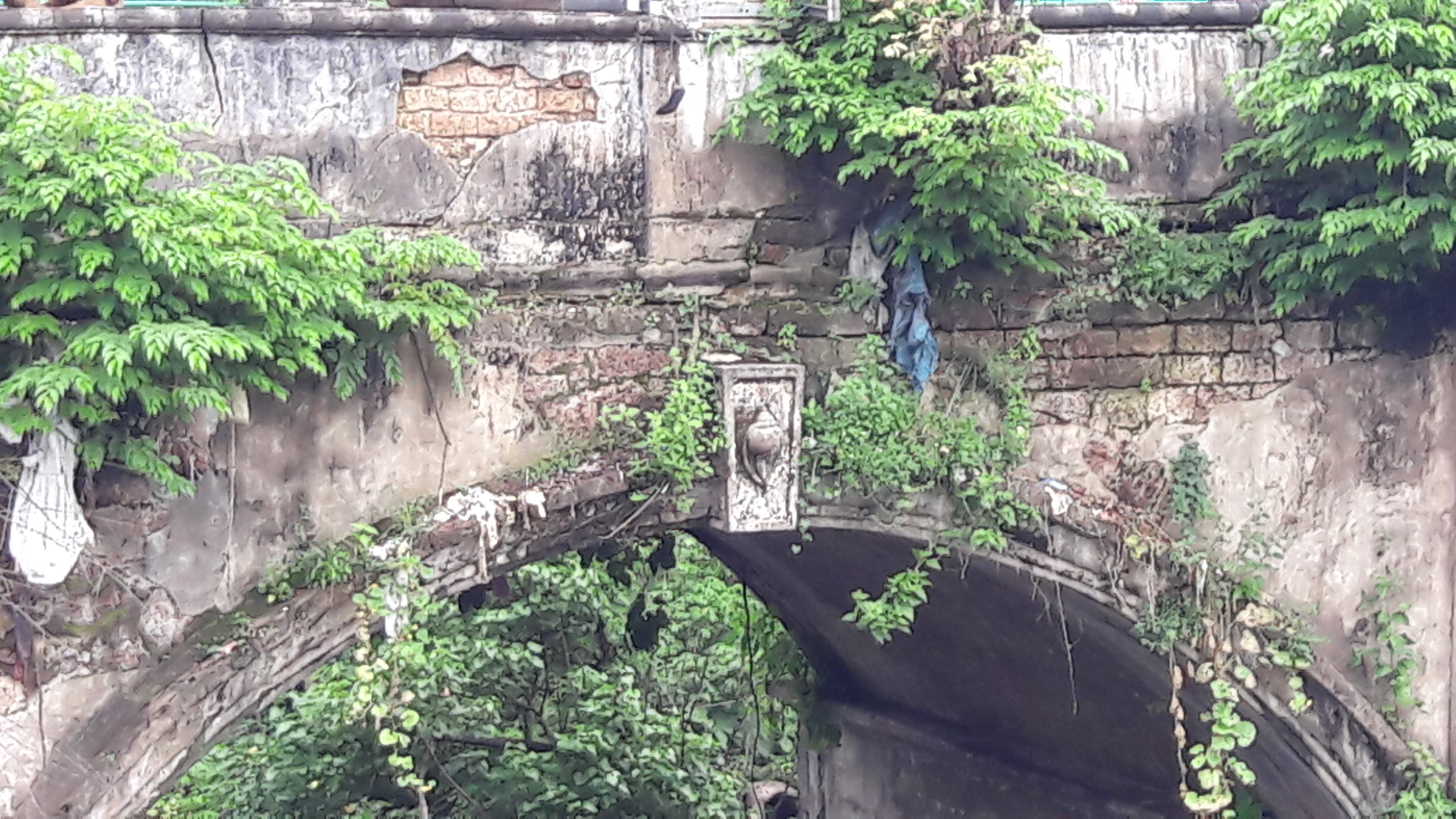 Kallupalam kollam, constructed in 1820